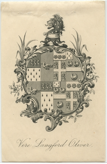 Vere Langford Oliver bookplate